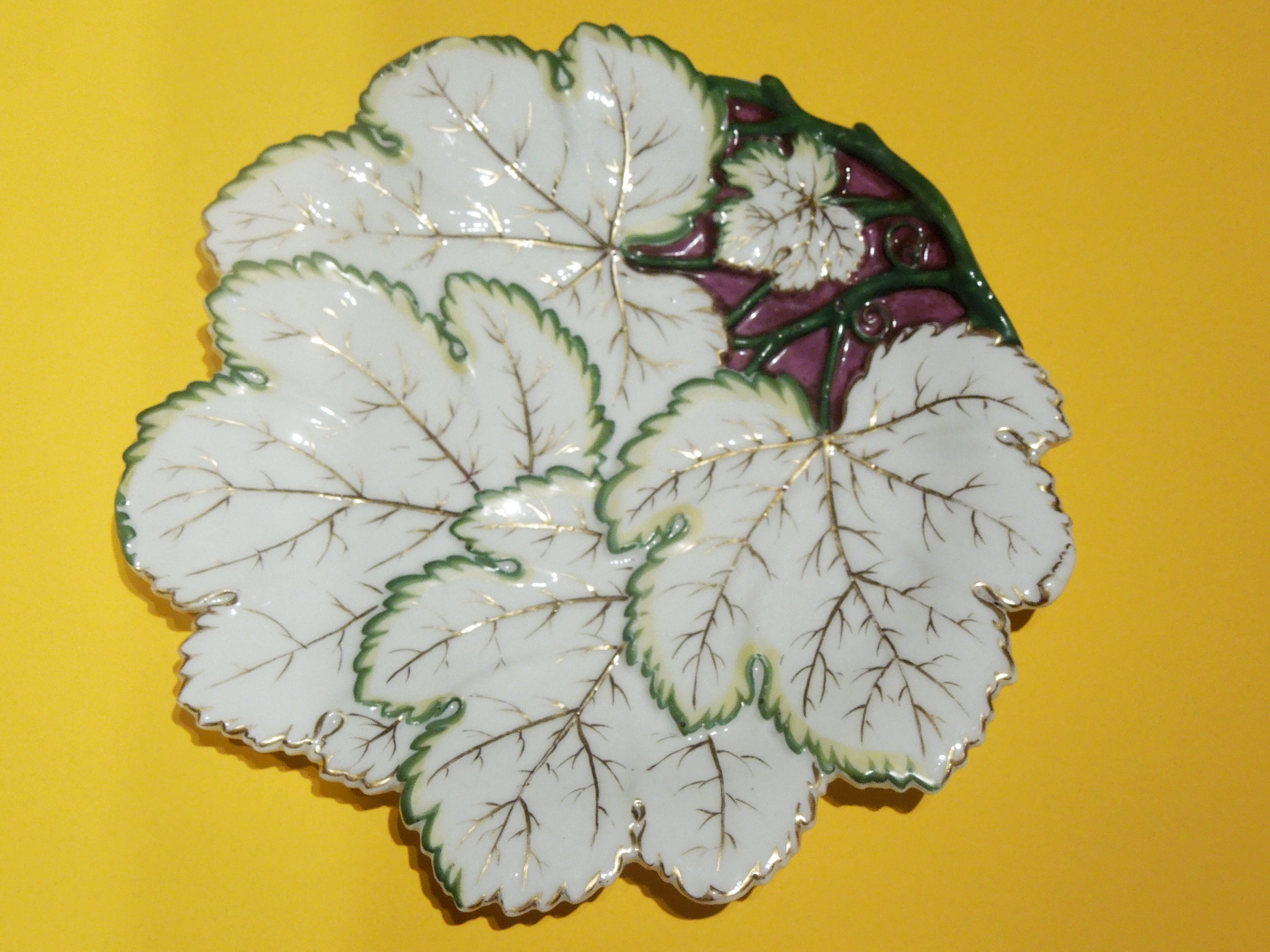 Plate in the shape of grape leaves, Wałbrzych, Carl Krister porcelain factory, c. 1840, porcelain, overglaze painting, gilding